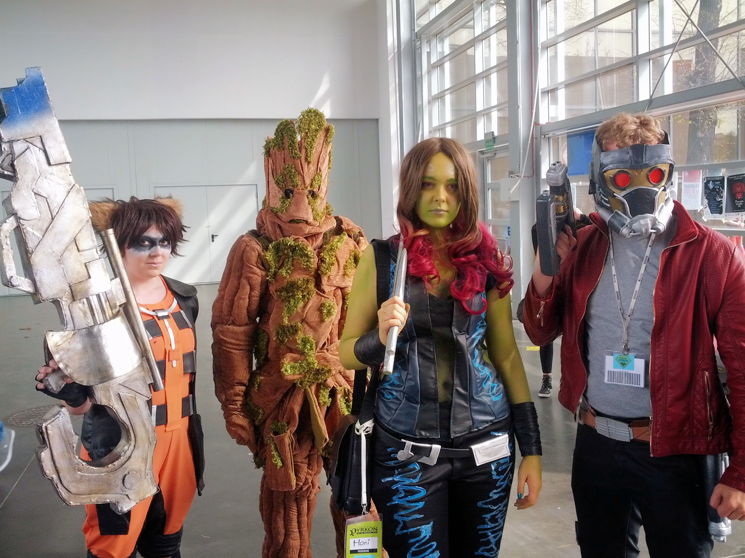 Guardians of the Galaxy cosplay, Pyrkon, Poznań